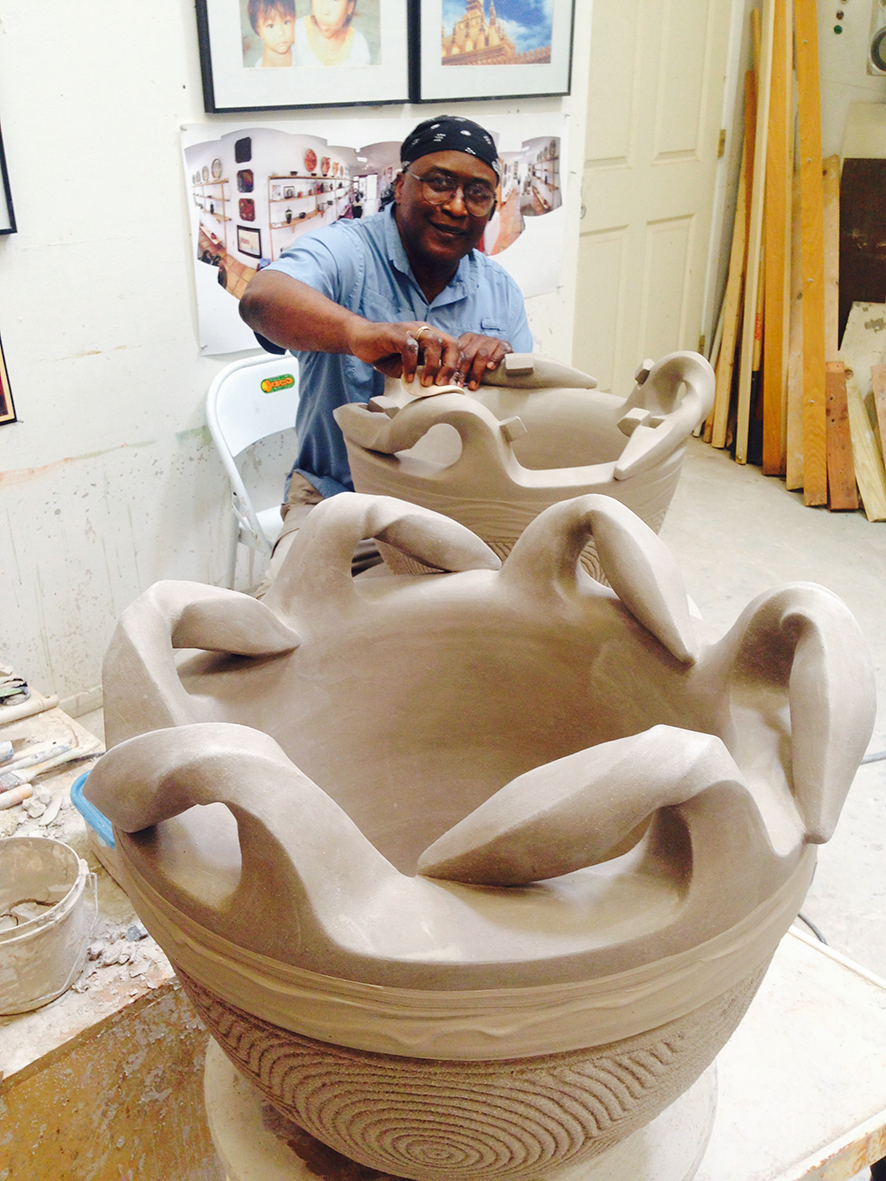 James C. Watkins working in his gallery